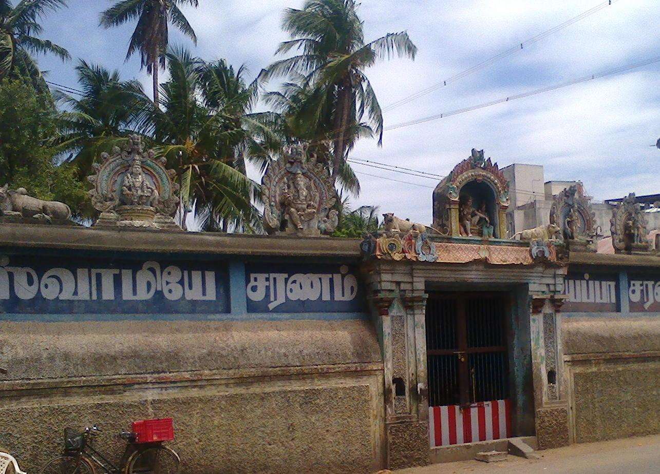 கும்பகோணம் யானையடி கோயிலின் முகப்பு